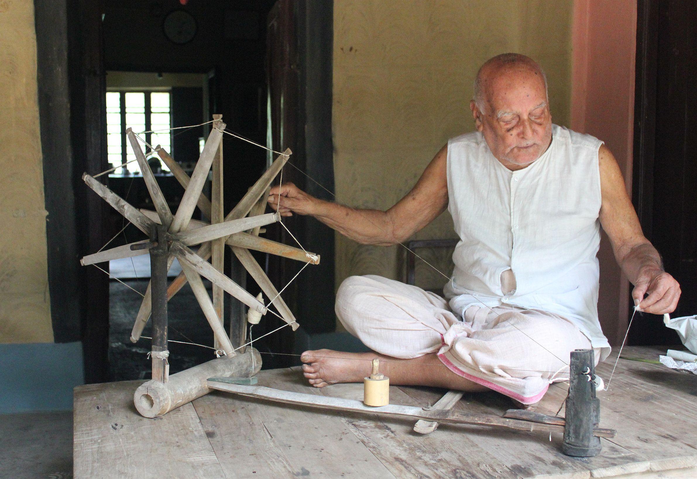 In 1940 Shri Chitta Bhusan hardcore Gandhian and follower of 'Nai Talim' came to a remote village named Majhihira in the then Manbhum district of Bihar State(now in West Bengal),where he founded the Majhihira National Basic Education Institution (MNBEI).Today he is 100 years ols still enjoy simple life and uses Charka.